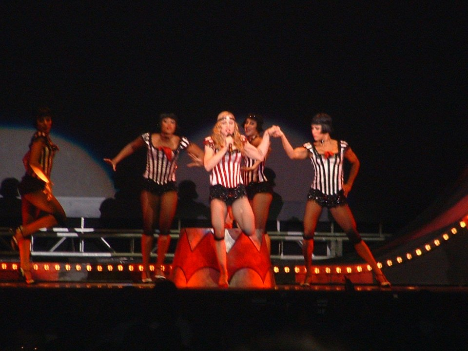 Picture taken by a fan from one of the 2004 concerts